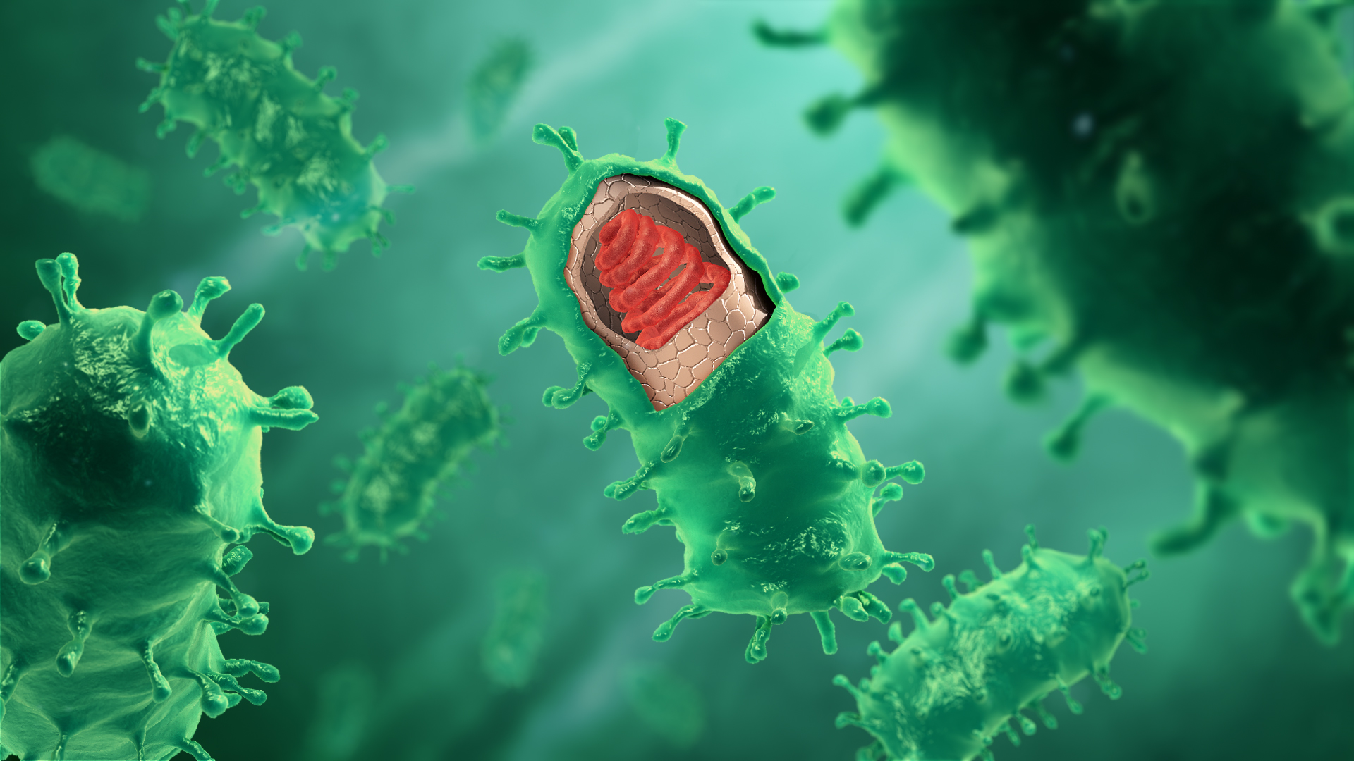 3D medical animation still showing rabies virus structure.